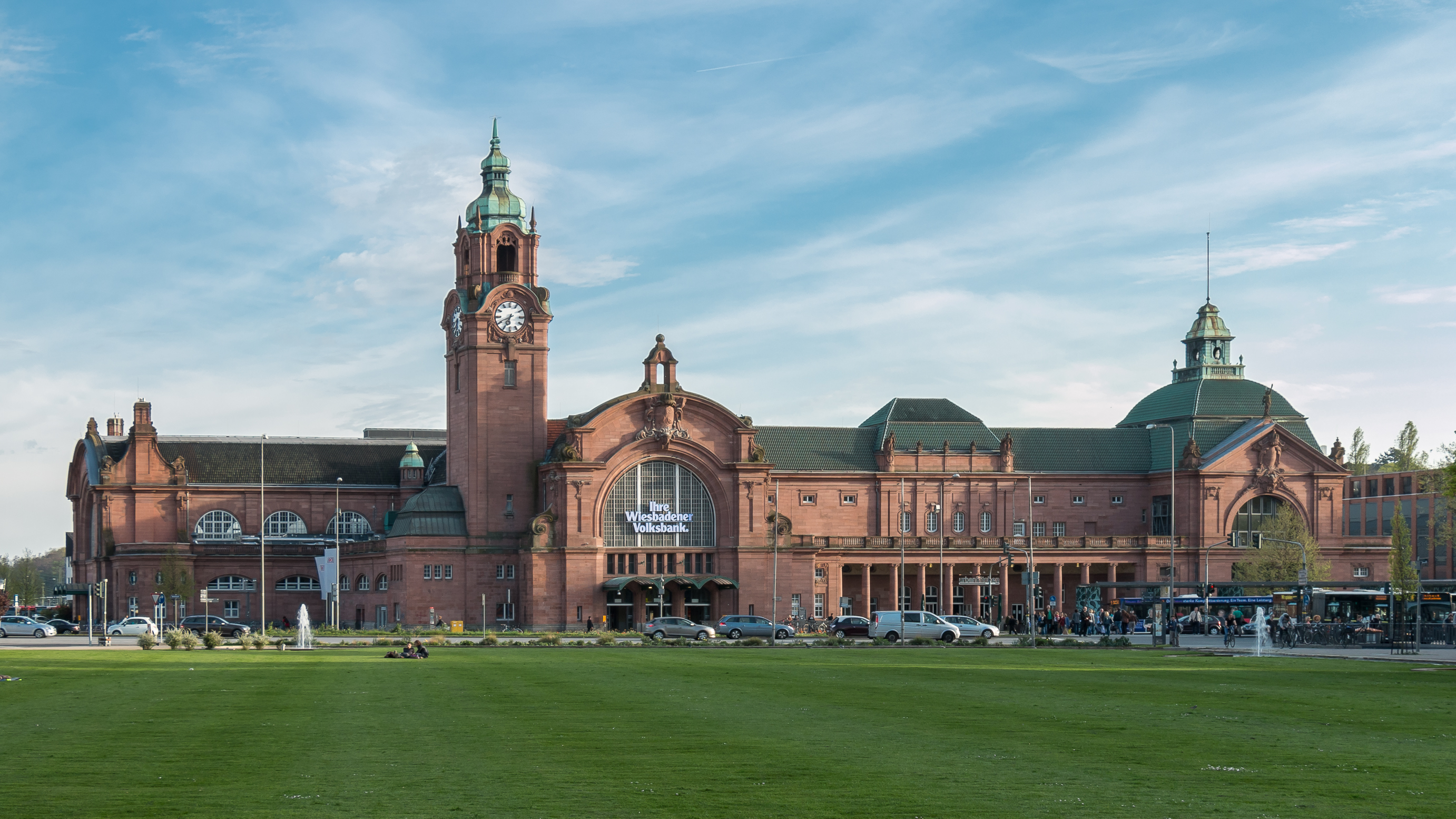 Wiesbaden Hauptbahnhof